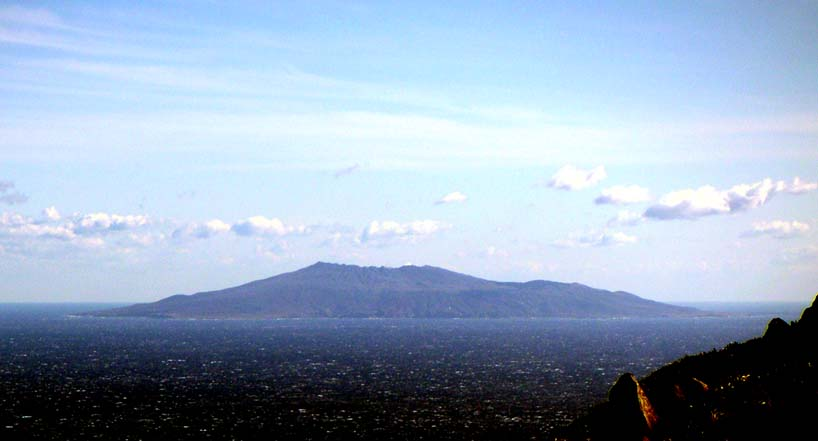 Miyake Island from Kozu Island, Tokyo, Jp